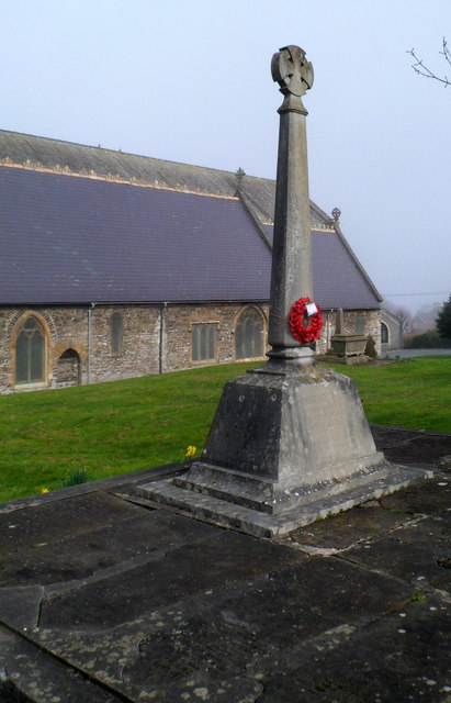 War Memorial outside All Saints Church, Oystermouth, Swansea. The Second World War Memorial is situated in the SW corner of All Saints churchyard.It was dedicated on November 28th 1948. Below a cross of Portland Stone are inscribed the names of 73 men and women of the district who were killed in the conflict. The memorial for those killed in The Great War (later known as the First World War) is inside the church.